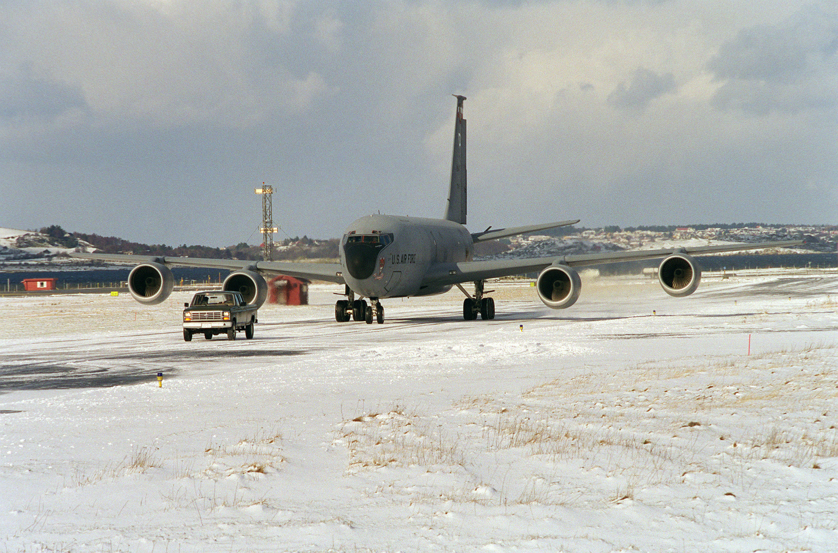 KC-135R Stratotanker from the 100th Aerial Refueling Wing based at Royal Air Force Mildenhall, United Kingdom, participate in the NATO Exercise STRONG RESOLVE Õ98. Using Sola Air Station, Norway, as home base, the 351st Aerial Refueling Squadron tankers fly missions supporting NATO aircraft. The ÒFollow MeÓ truck leads this tanker, ÒEl Diablo,Ó to a parking area.